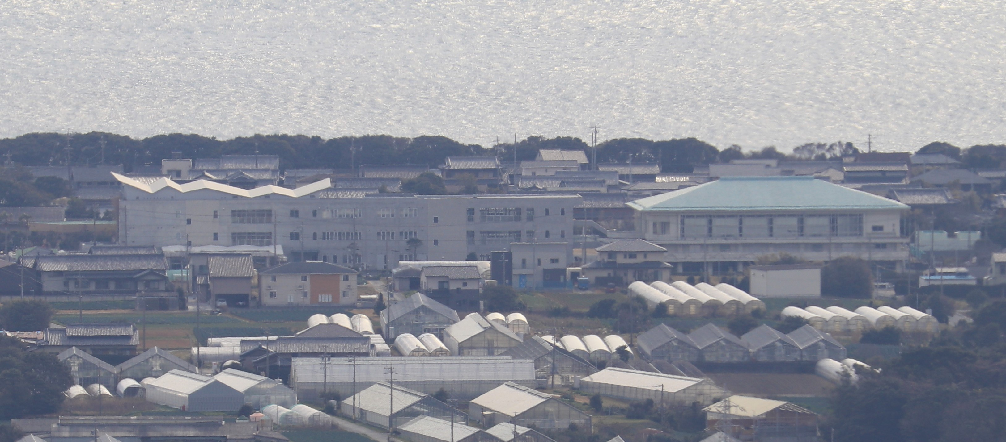 Tahara City Akabane Junior High School in Akabane-cho, Tahara, Aichi Prefecture, Japan.